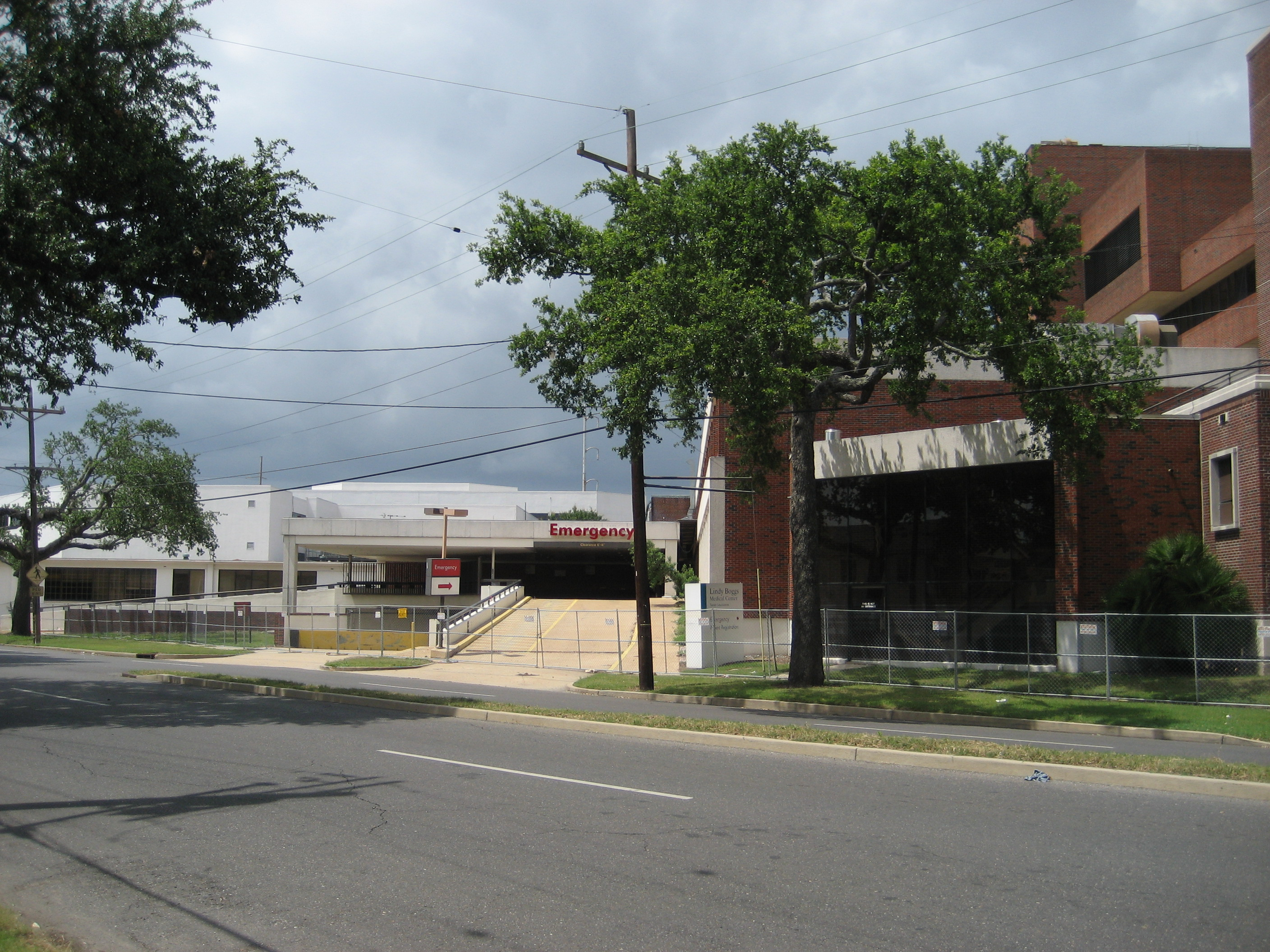 New Orleans: Lindy Boggs Hospital, Mid City; vacant since flood damage in the Hurricane Katrina levee disaster of 2005.